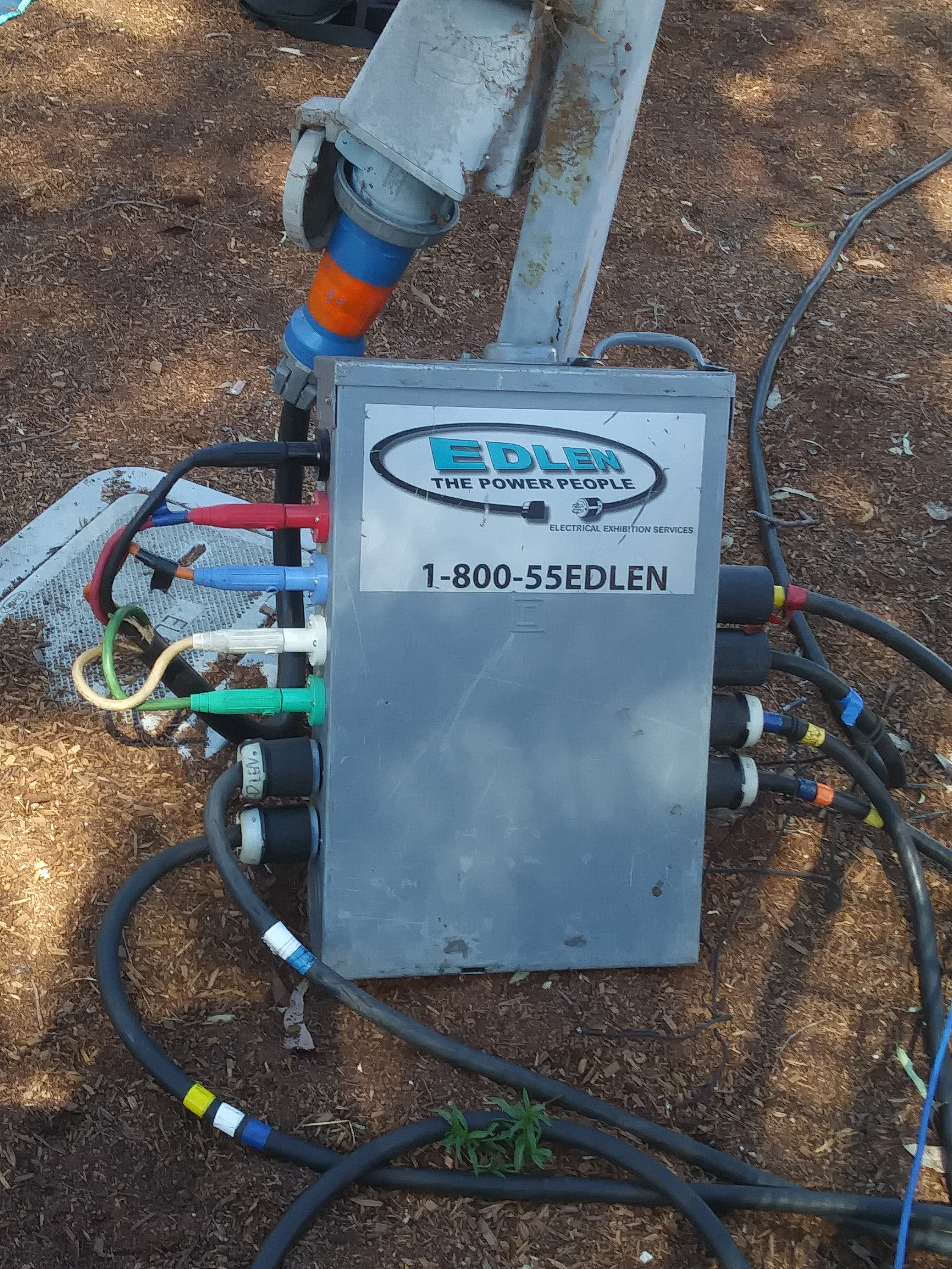 Camlock 120v AC power distribution unit feeding multiple twistlock circuits.